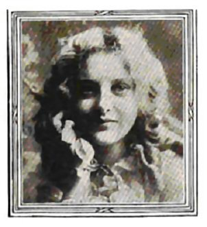 Actress Ella Hall ca. 1915